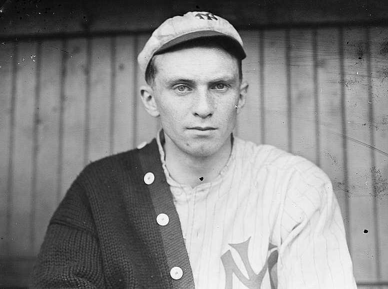 1912 photograph of George Davis, pitcher for the New York Highlanders. This image is cropped slightly from the original plate.